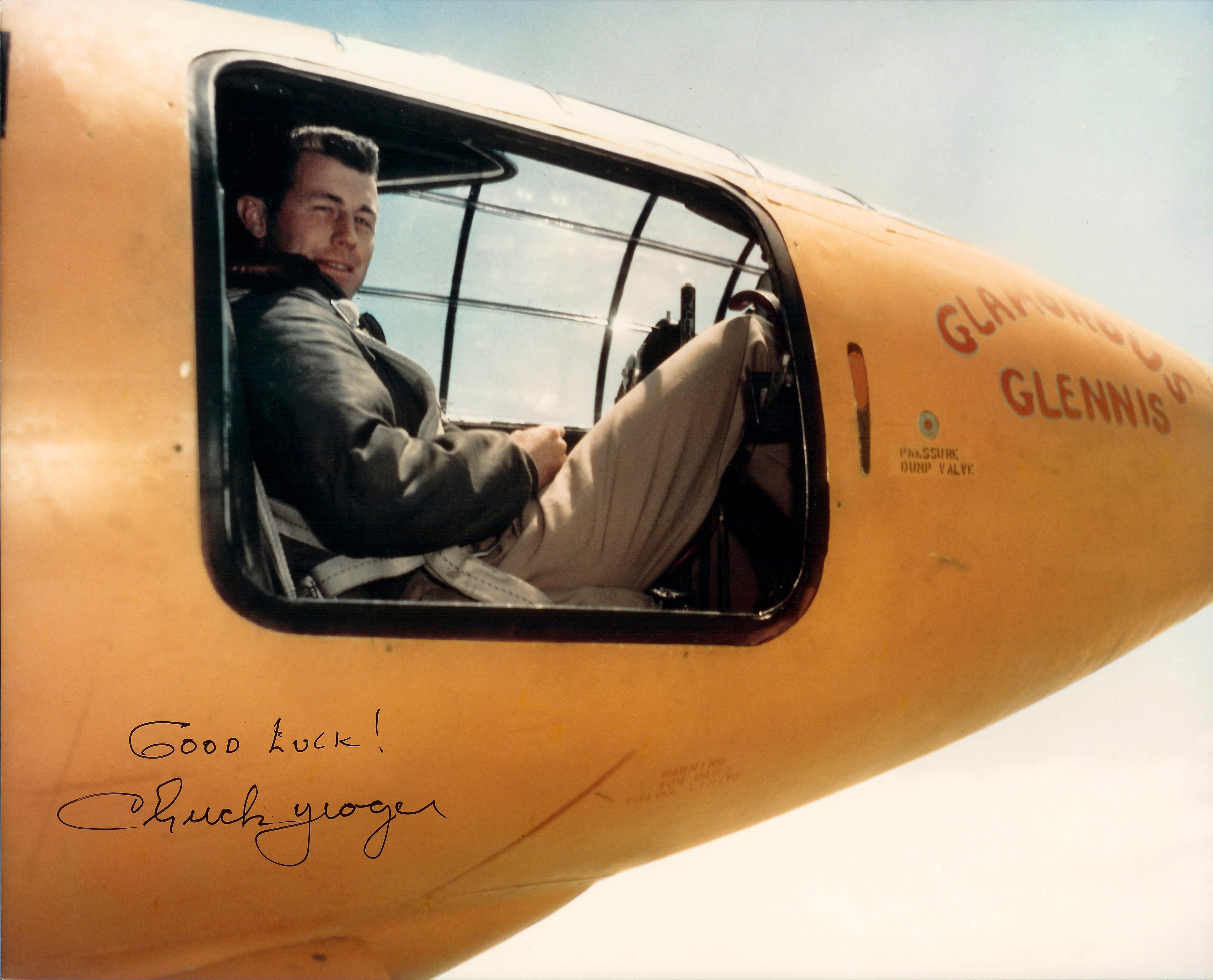 Captain Chuck Yeager sitting in Bell X-1 cockpit. Scanned from print signed by Chuck Yeager at Edwards AFB on March 1, 1994.